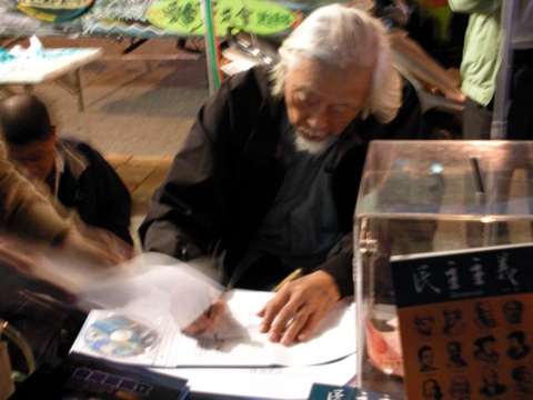 Su Beng, at Xinzhuang, 2007 Democratic Progressive Party's Drum-up support activities.